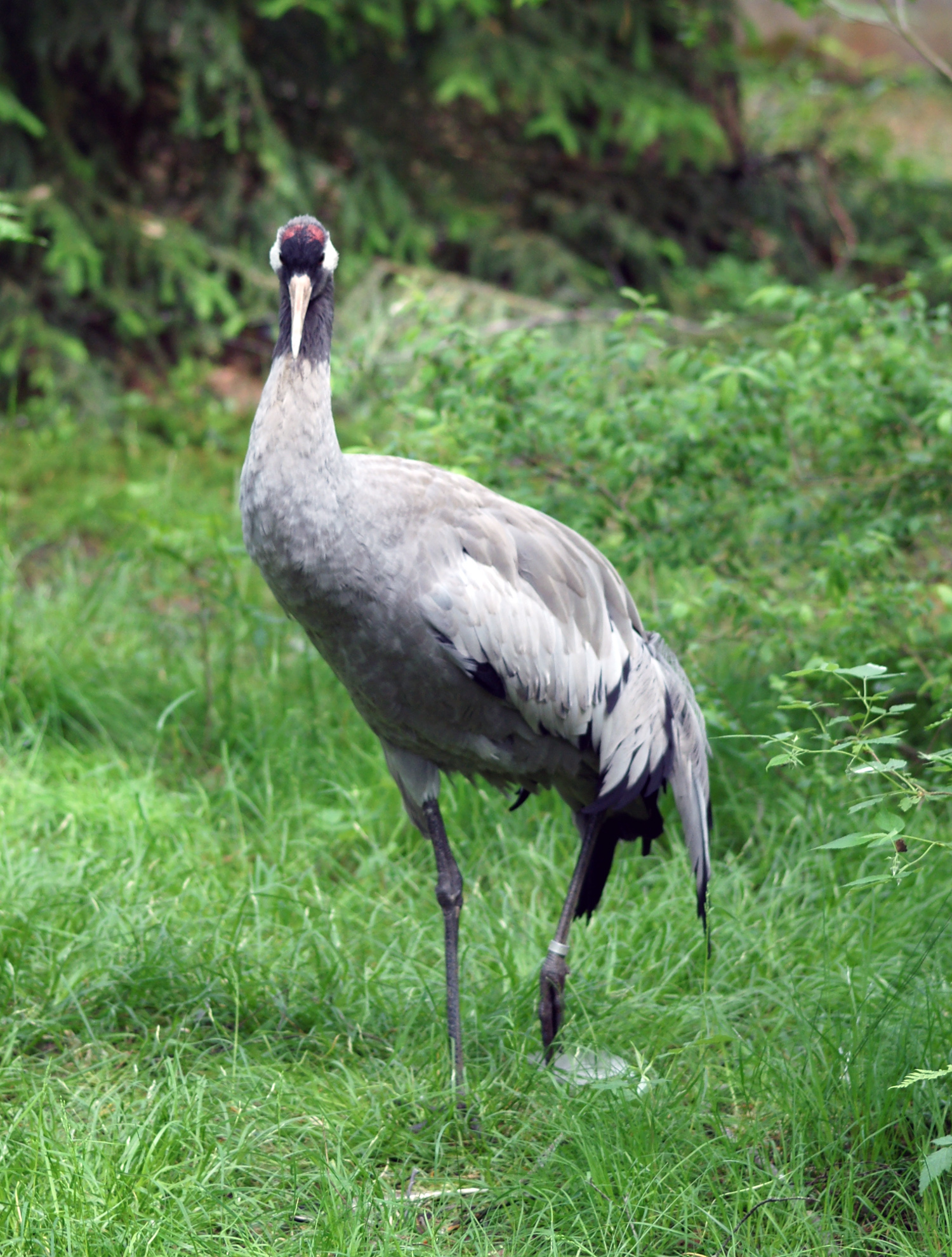 Common Crane (Grus grus) in Ähtäri Zoo.